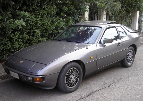 A photo of my 1981 Porsche 924.